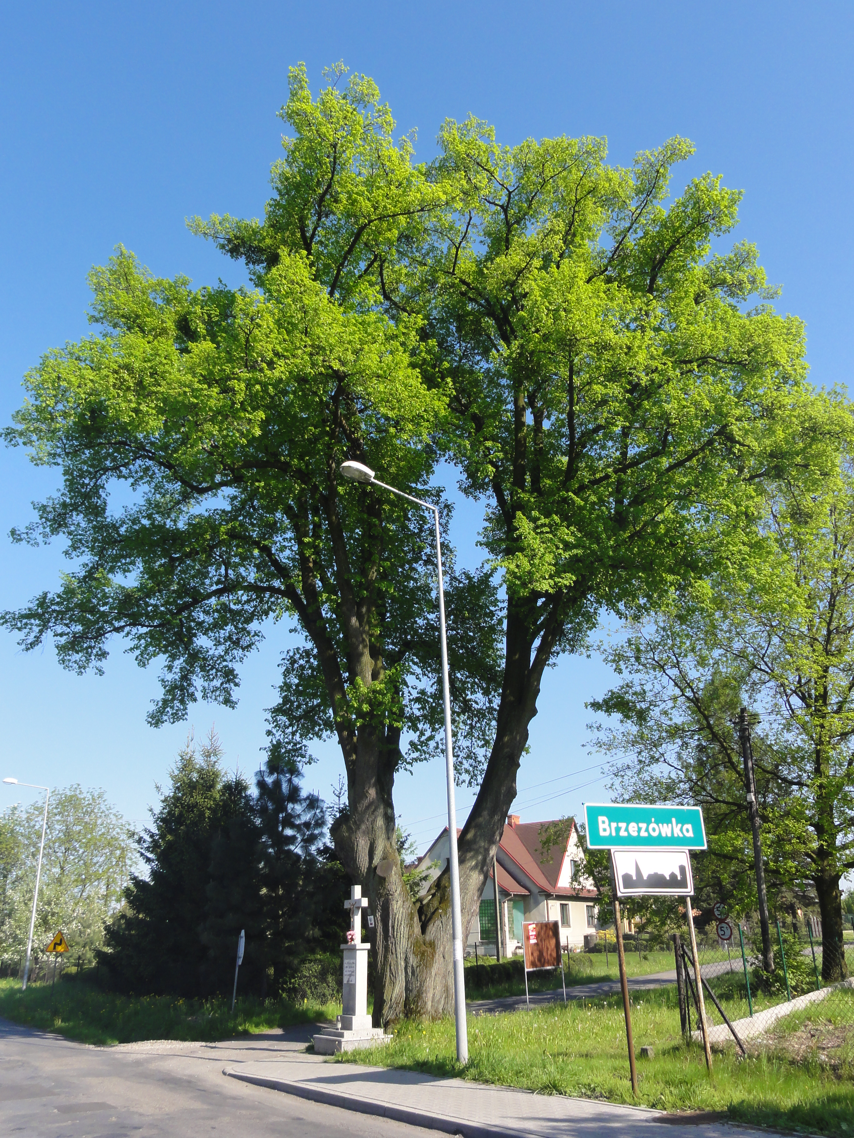 250 years old Tilia cordata, a natural monument, on the border between Brzezówka and Pogwizdów (Poland)